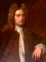 Massachusetts colonial lieutenant governor William Dummer.